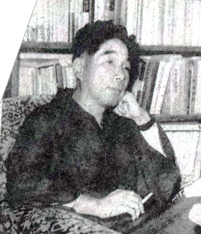 Masashi(Seishi) Yokomizo